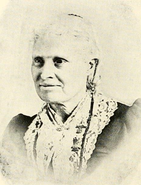 An older white woman with white hair. She has several medals pinned to her dress front.